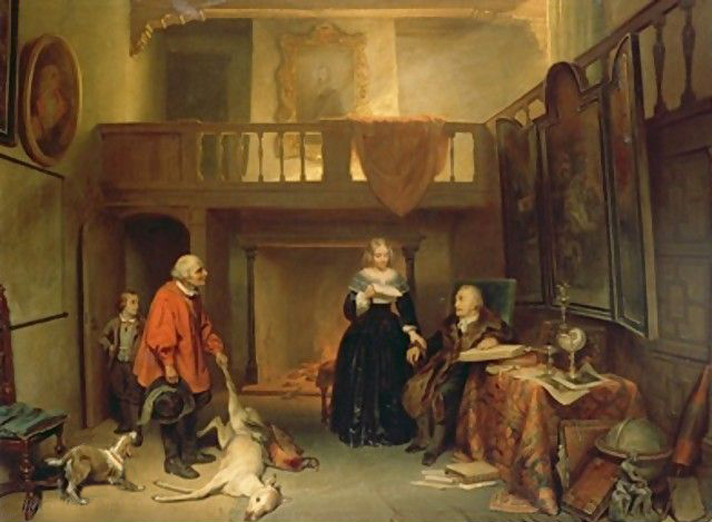 "Paying the Tithe" oil on Canvas.